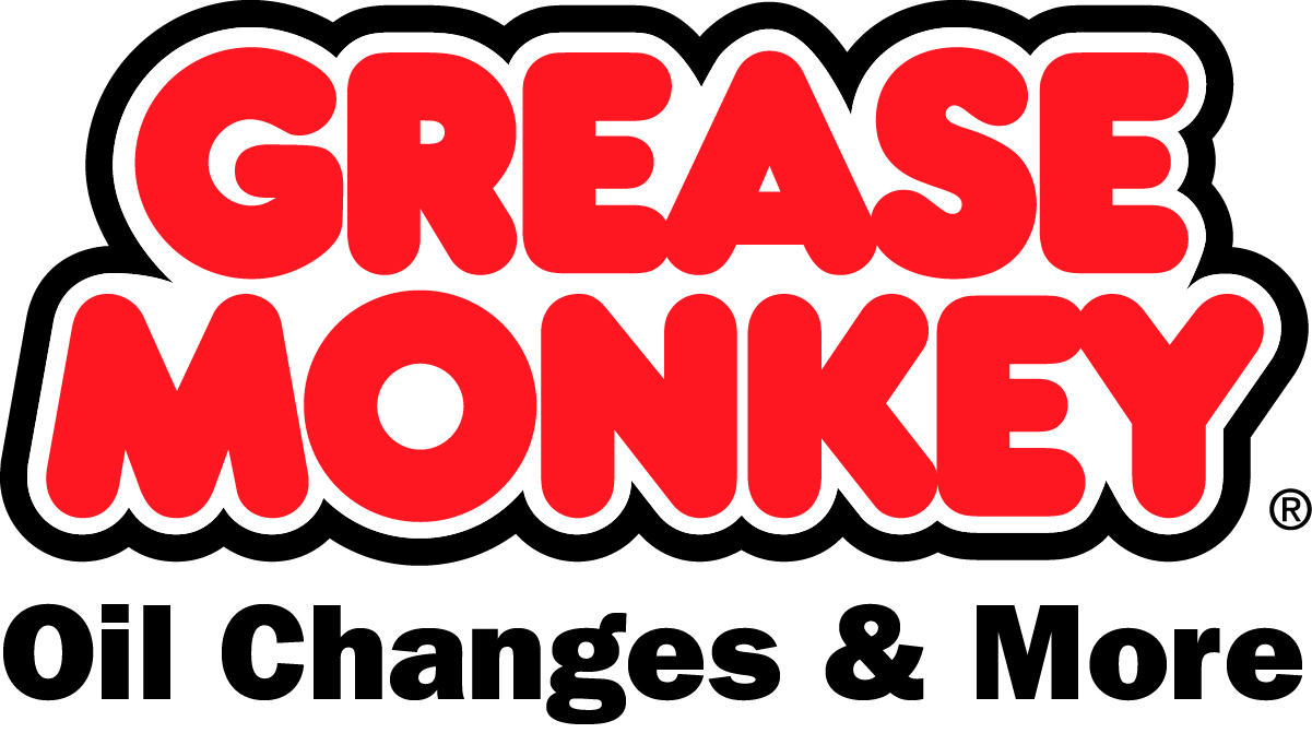 Grease Monkey Logo May 2011-Present